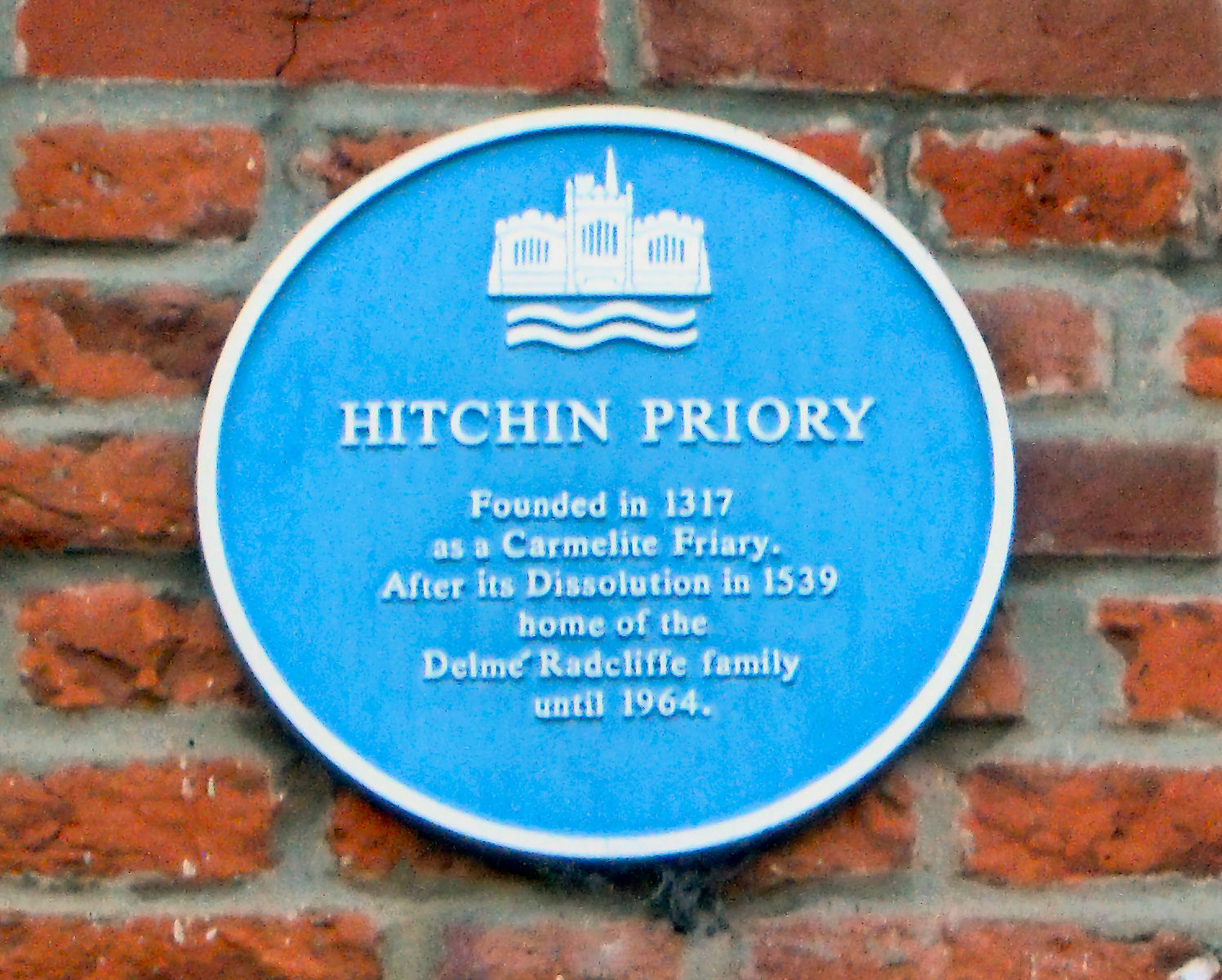 Blue plaque commemorating the Carmelite friary and the Delme-Radcliffe family on Hitchin Priory in Hitchin in Hertfordshire